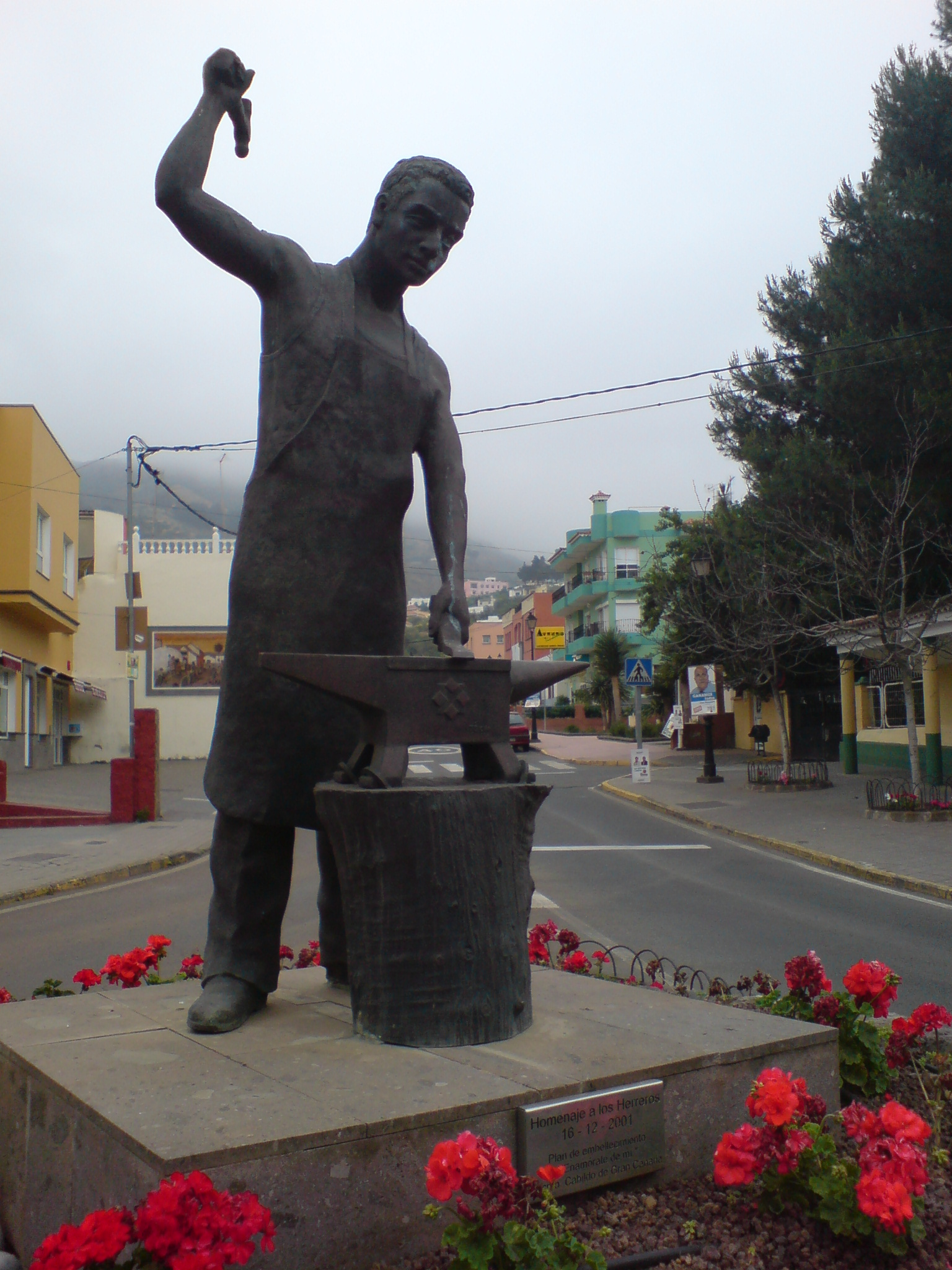 Tribute to the blacksmiths (2001). Vega de San Mateo, Gran Canaria, Canary Islands.